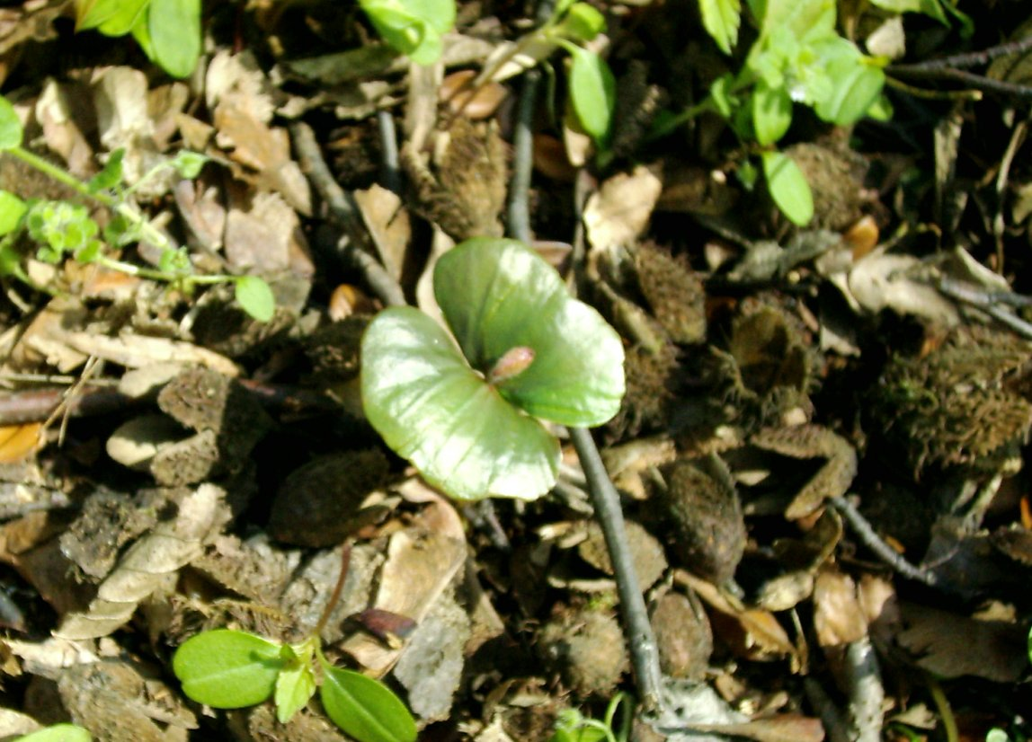 Beech seedling